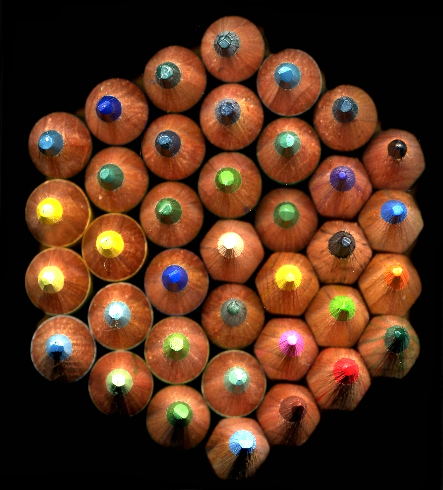 Colored_pencil